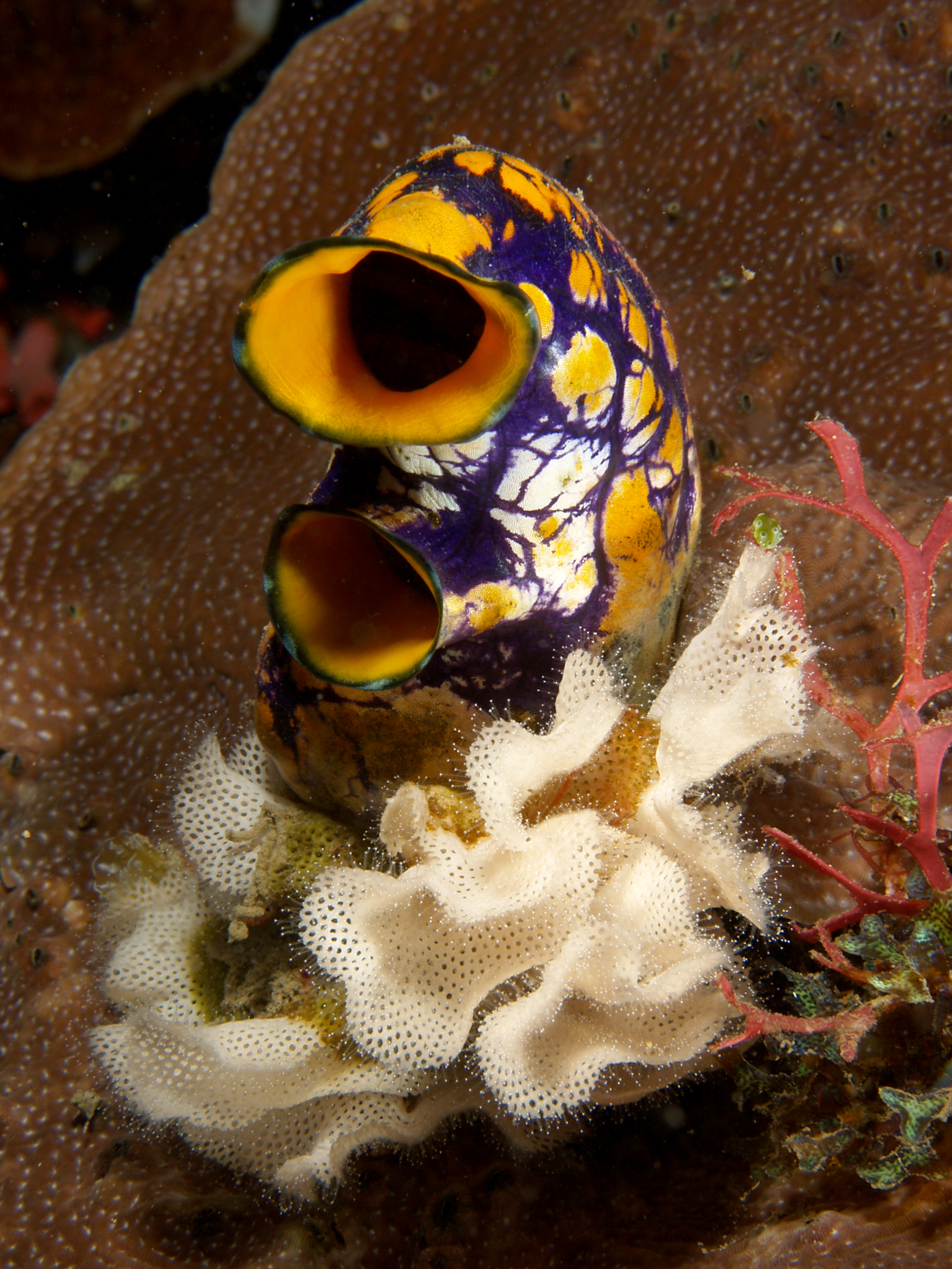 White Triphyllozoon inornatum (Bryozoan) and purple Polycarpa aurata (Sea squirt)